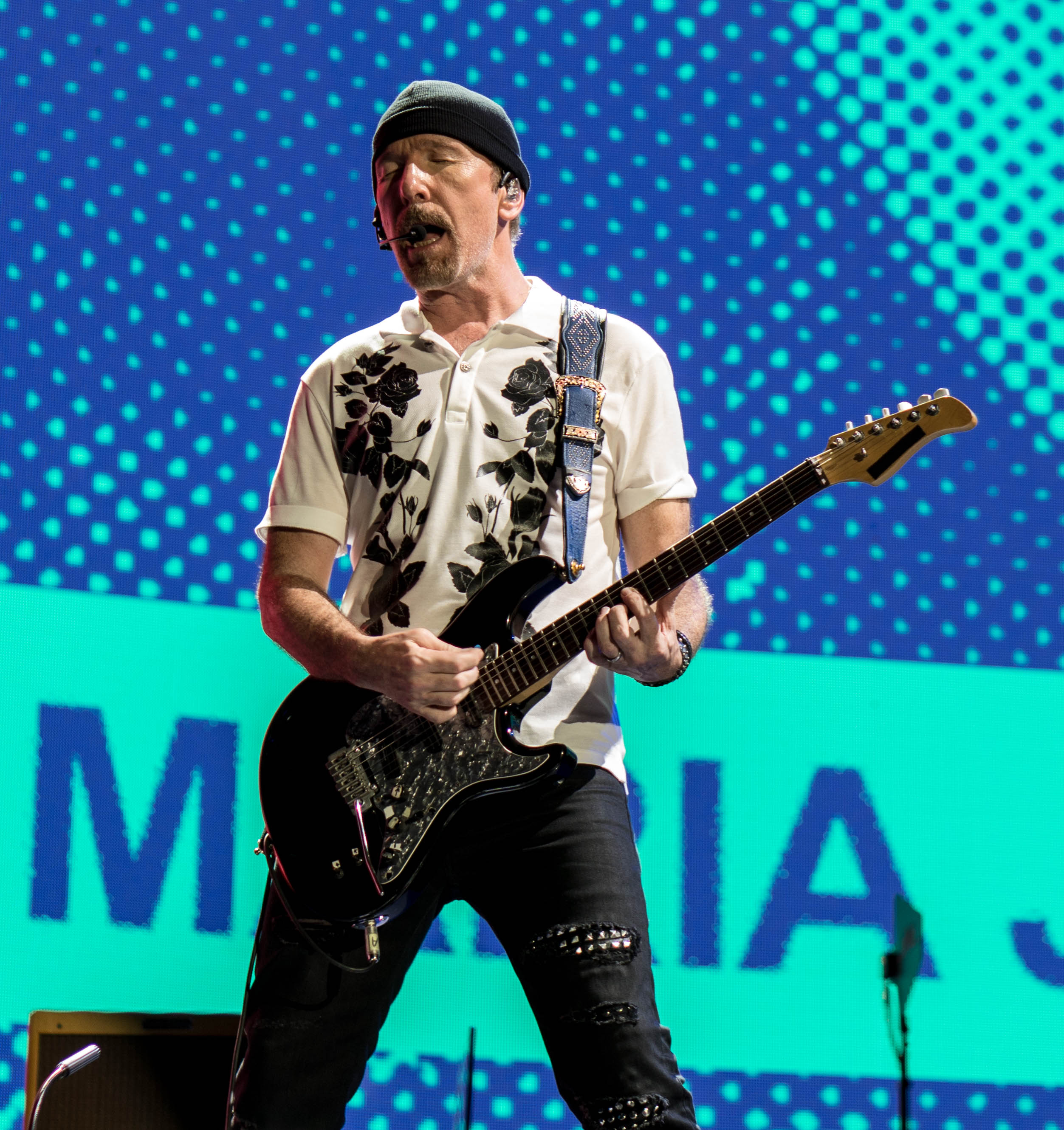 U2 performing in Miami on Jun 11 2017